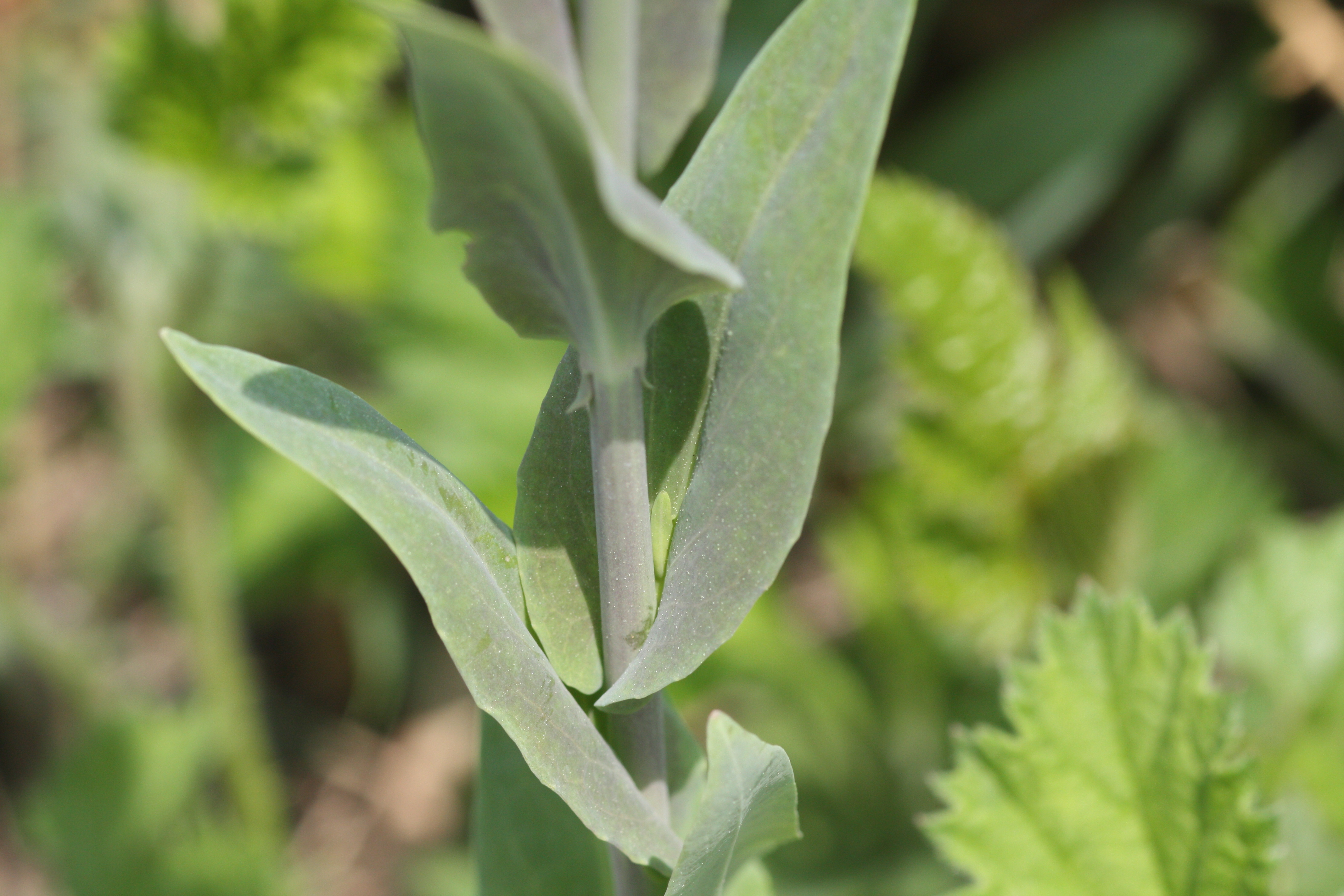 Arabis glabra